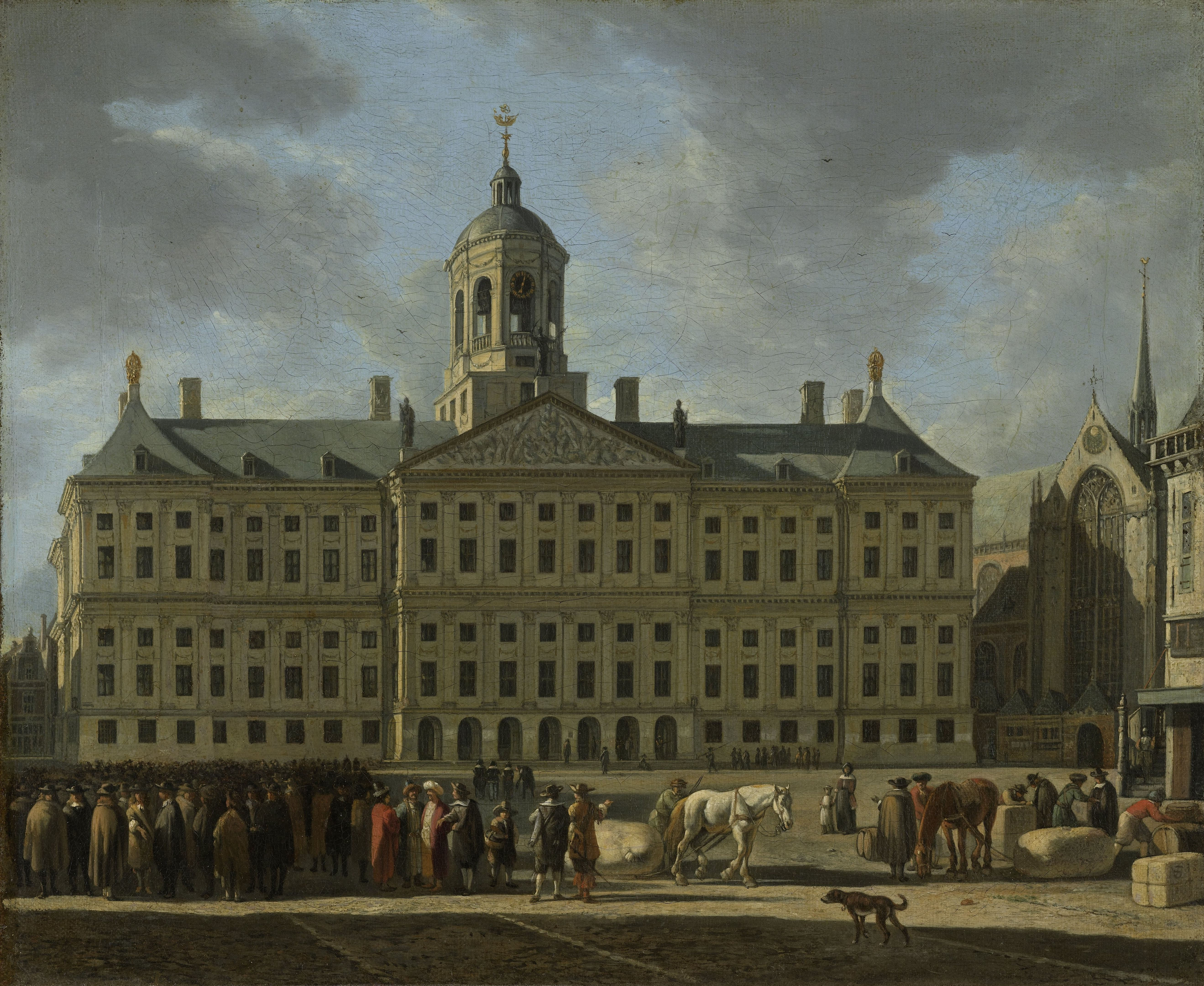 The town hall on Dam Square in Amsterdam. To the right the Nieuwe Kerk and part of the Waag.